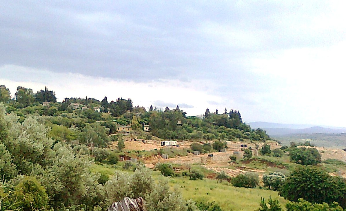 Kibbutz Parod, Israel